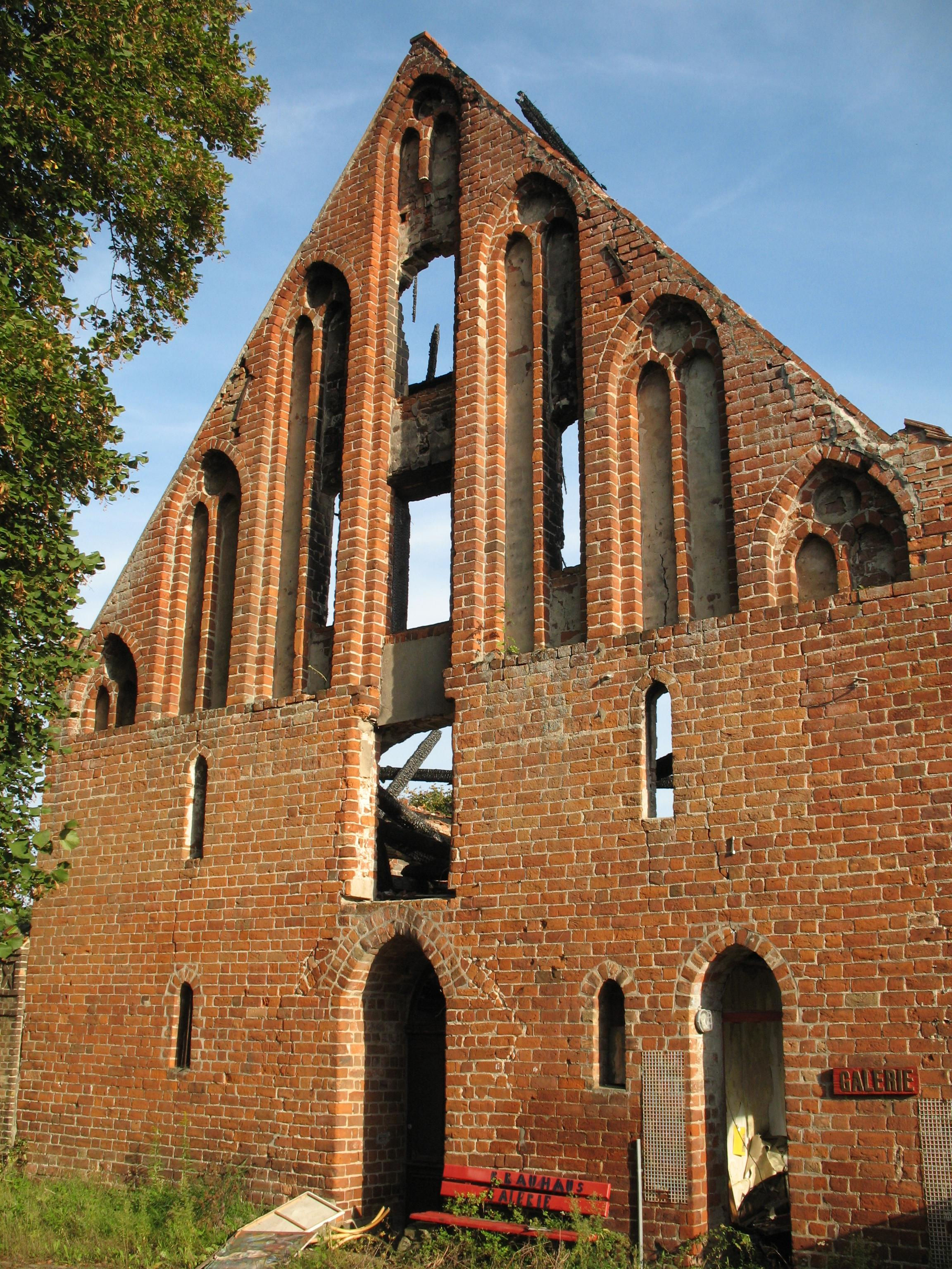 Former brewery in Fürstenberg-Himmelpfort, Germany